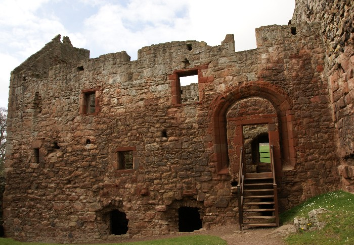 Hailes Castle, Scotland